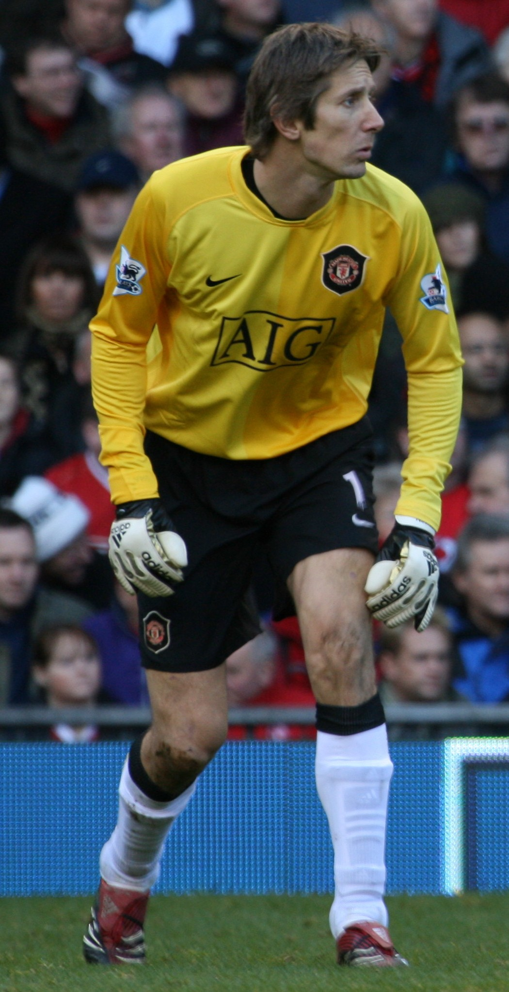 Edwin van der Sar playing for Manchester United F.C.